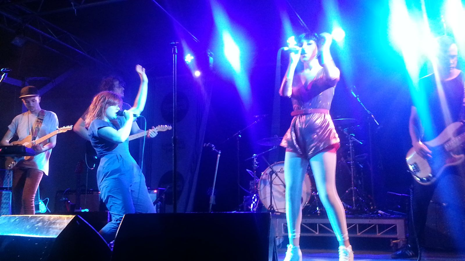 Photograph of Australian band Alpine performing at St Jerome's Laneway Festival in Brisbane, Australia on 1 Feb 2013